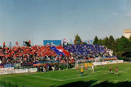 Il derby con la Ternana nella stagione 1993-94.